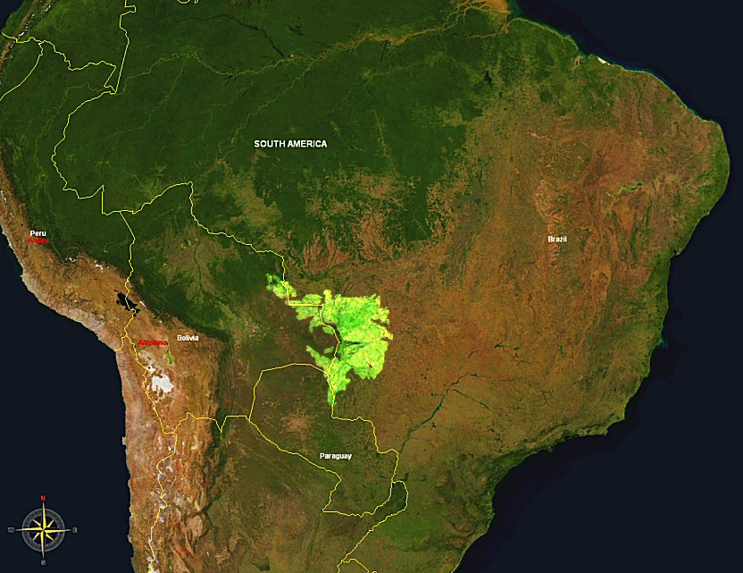 Pantanal (highlighted area), South America